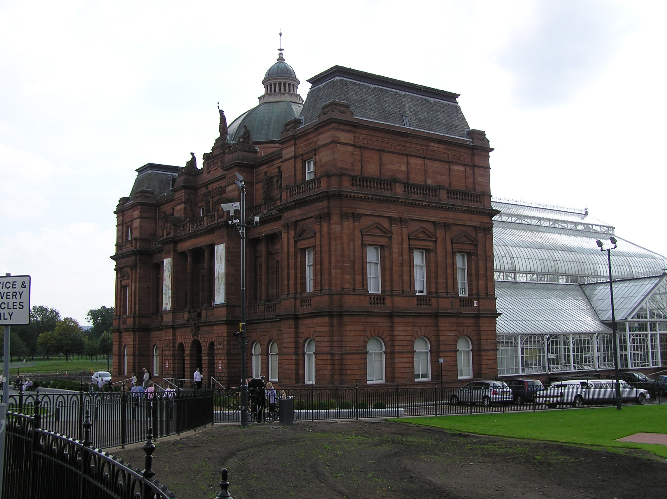 The People's Palace museum in Glasgow, Scotland Taken by user:Finlay McWalter on the 3rd of September 2005